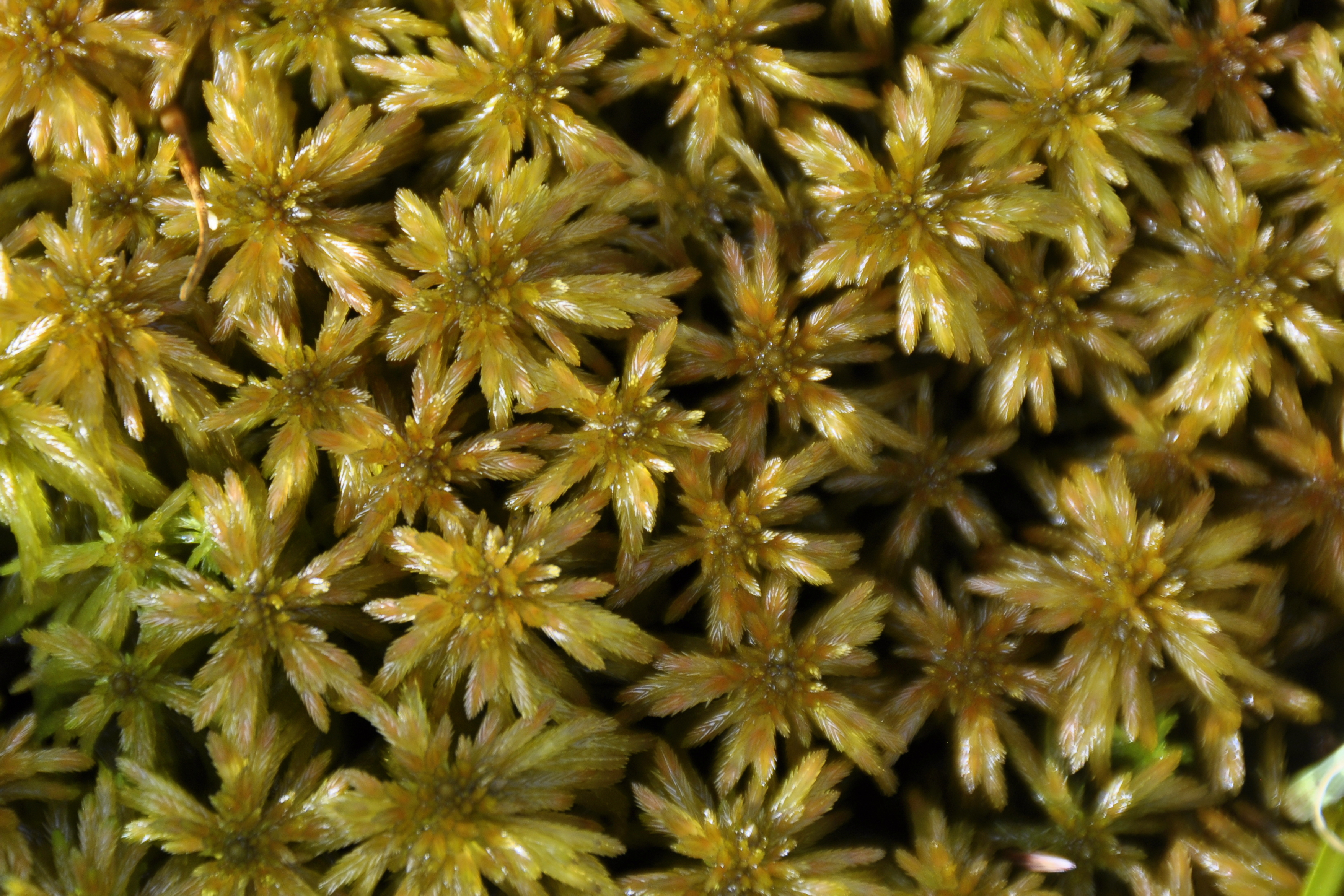 Sphagnum jensenii is one of the nicest and quite rare Sphagnum species.